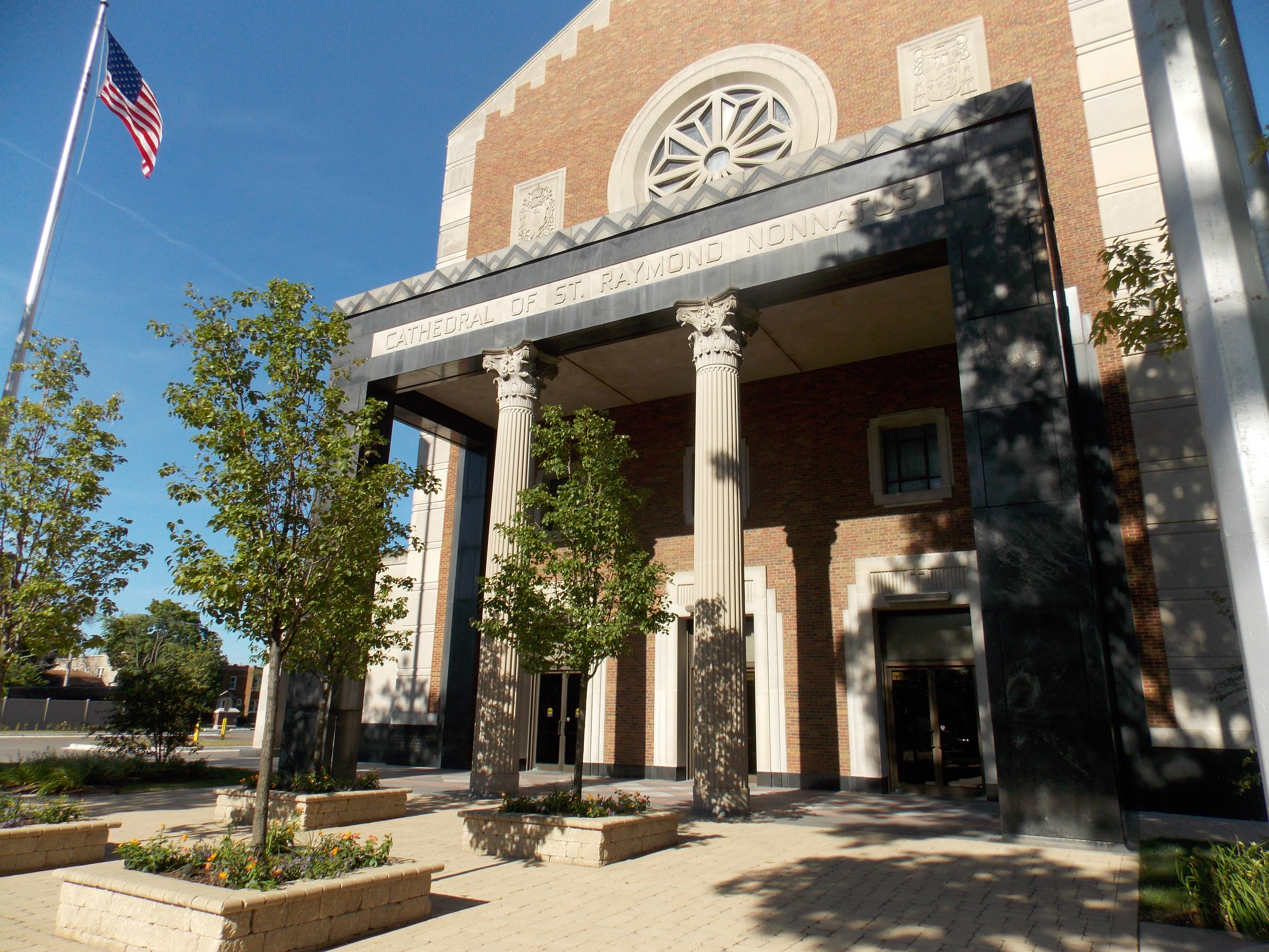 The Cathedral of St. Raymond Nonnatus is the seat of the Catholic Diocese of Joliet in Illinois.